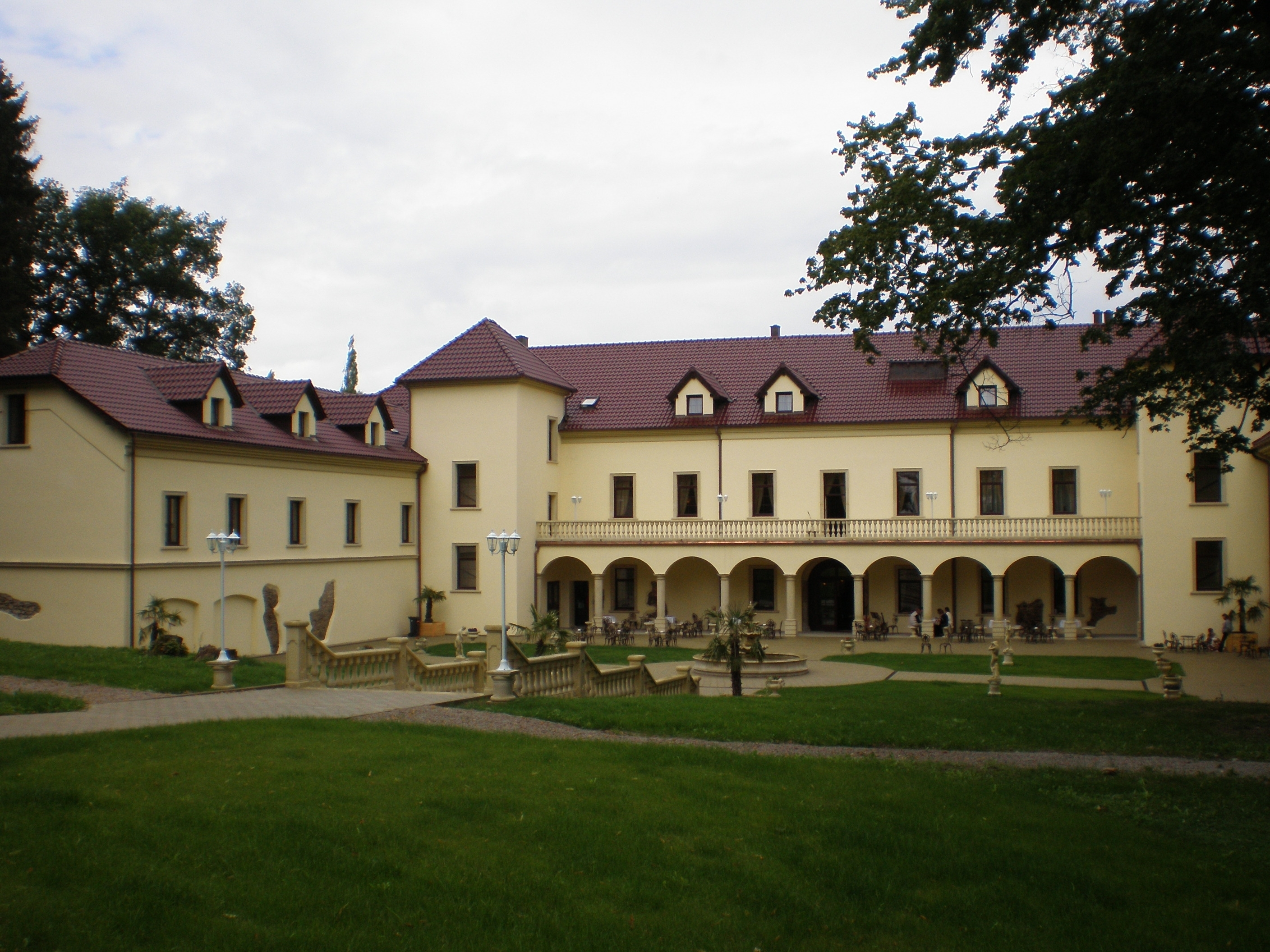 Kamenný Dvůr Chateau, City of Kynšperk nad Ohří, Karlovy Vary Region